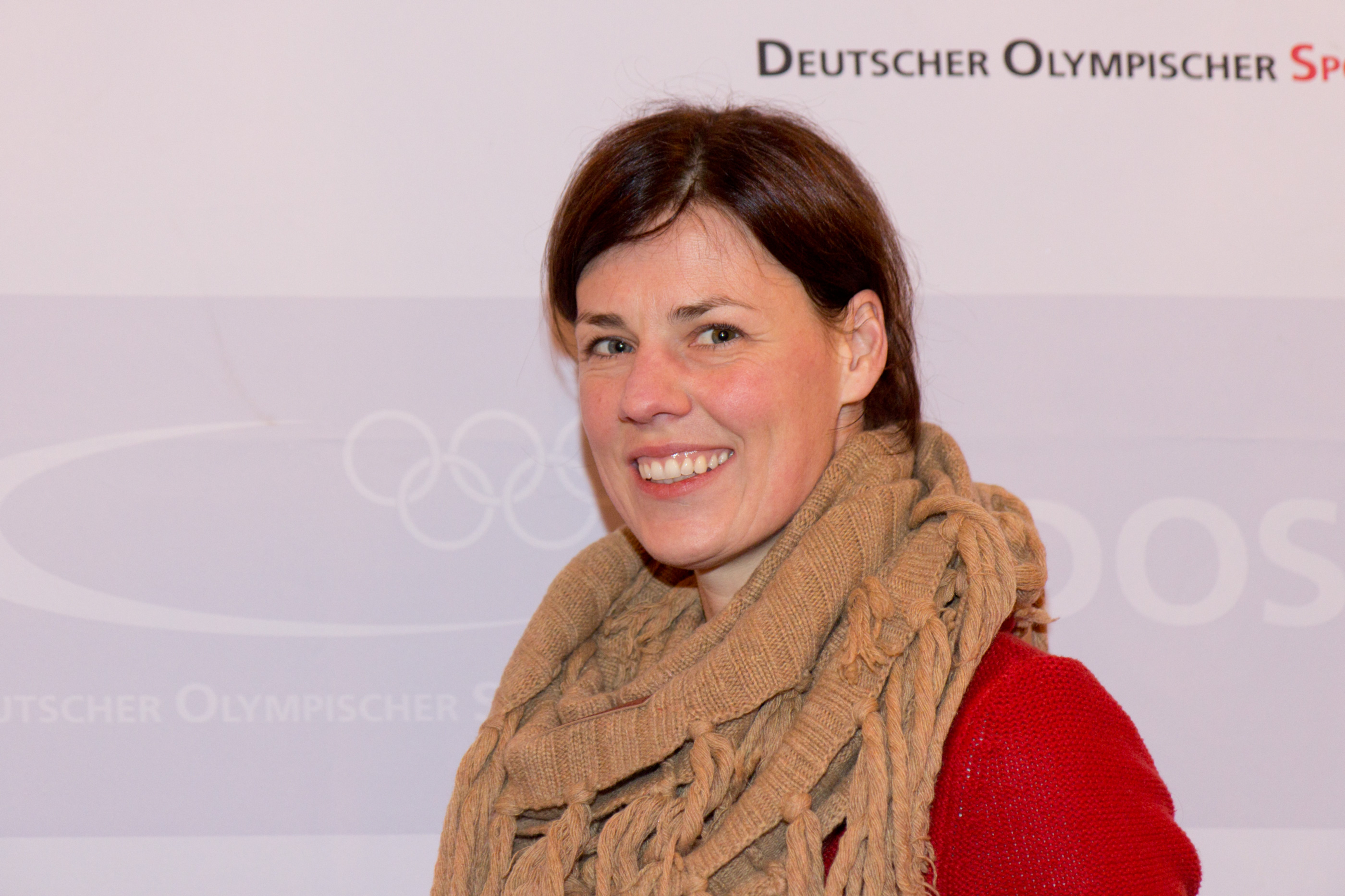 Mitgliederversammlung des DOSBam 7. Dezember 2012 in Stuttgart Olaf Kosinsky Madonius Steschke Dieses Foto entstand aufgrund einer Zusammenarbeit mit dem DOSB. Personality rights warningAlthough this work is freely licensed or in the public domain, the person(s) shown may have rights that legally restrict certain re-uses unless those depicted consent to such uses. In these cases, a model release or other evidence of consent could protect you from infringement claims.